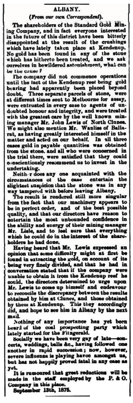 Extract of an article from The Western Australian Times, as printed in The Argus 21 September 1875, p2. relating to the discovery of gold at Kendenup